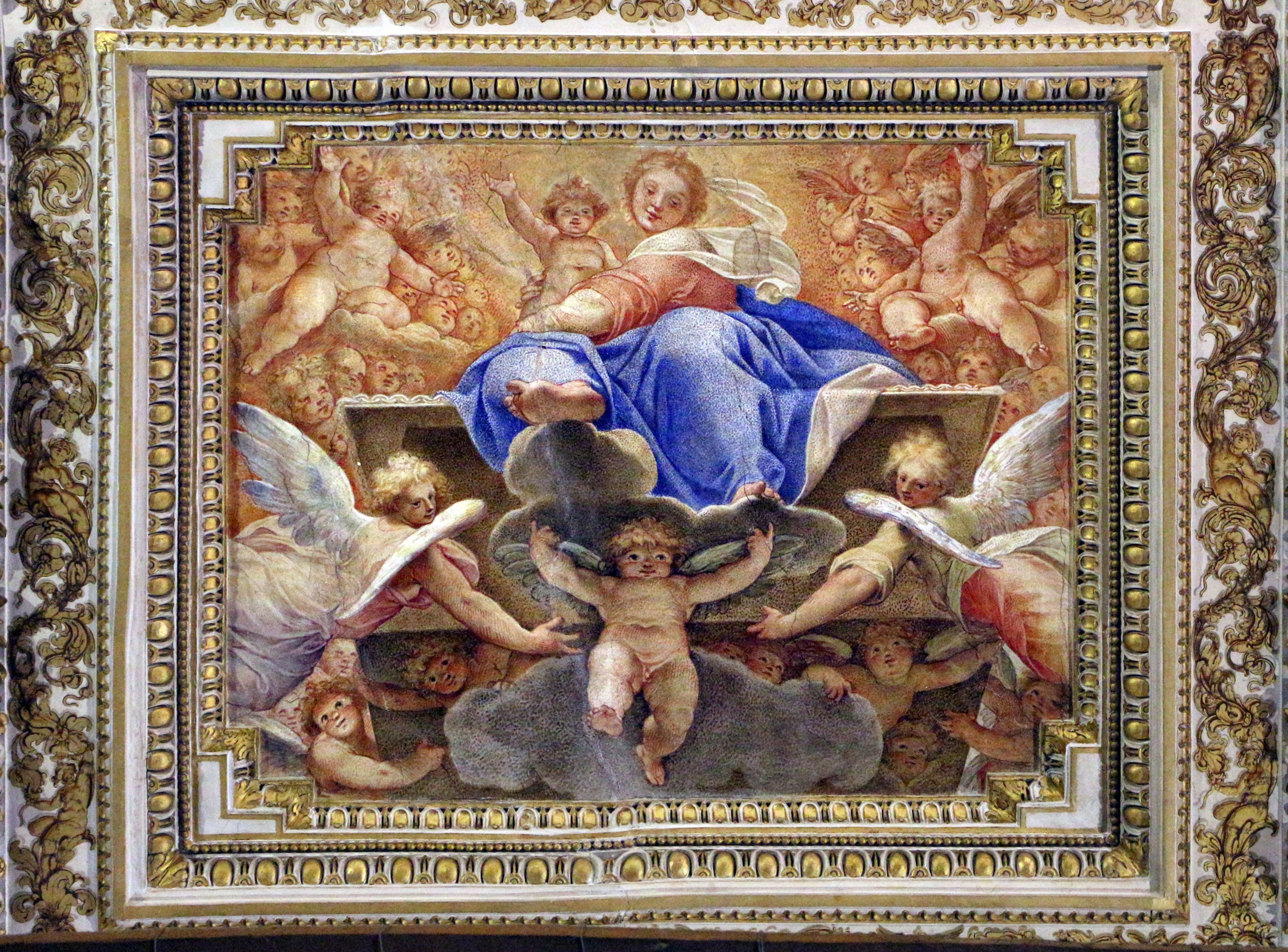 Santuario della Santa Casa (Loreto) - Pomarancio Vestry